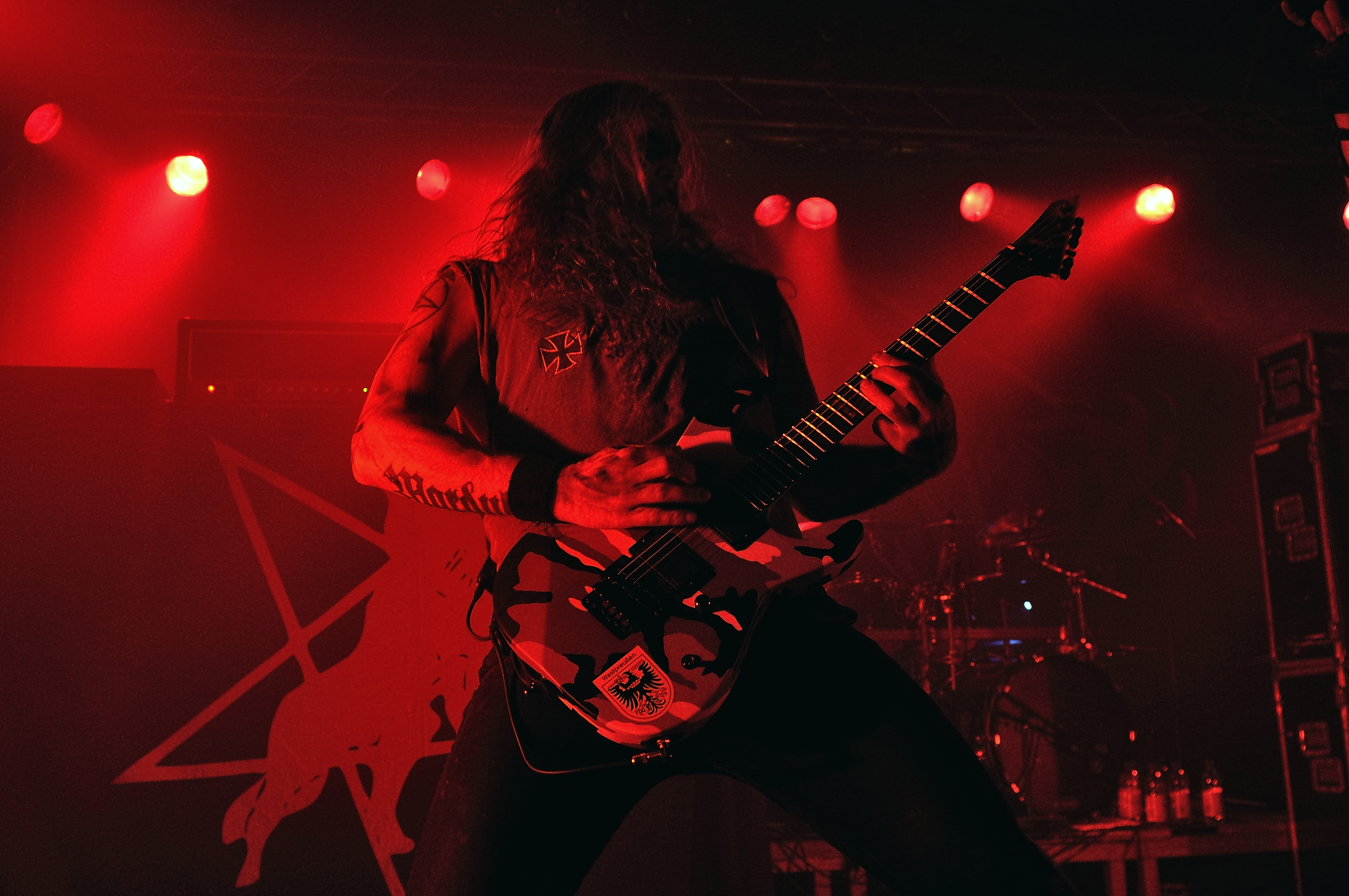 Marduk at Hatefest 2015 in Berlin.